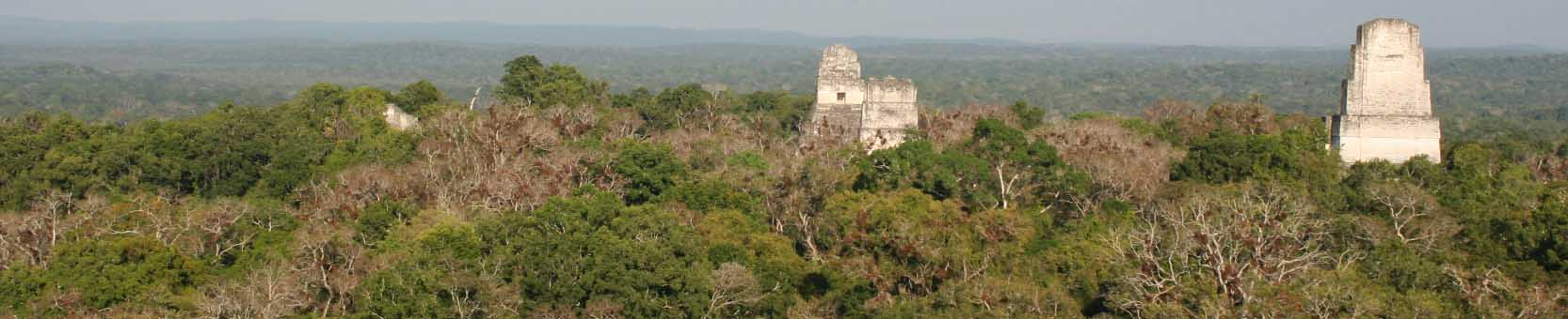 Panorama of Tikal, Guatemala.